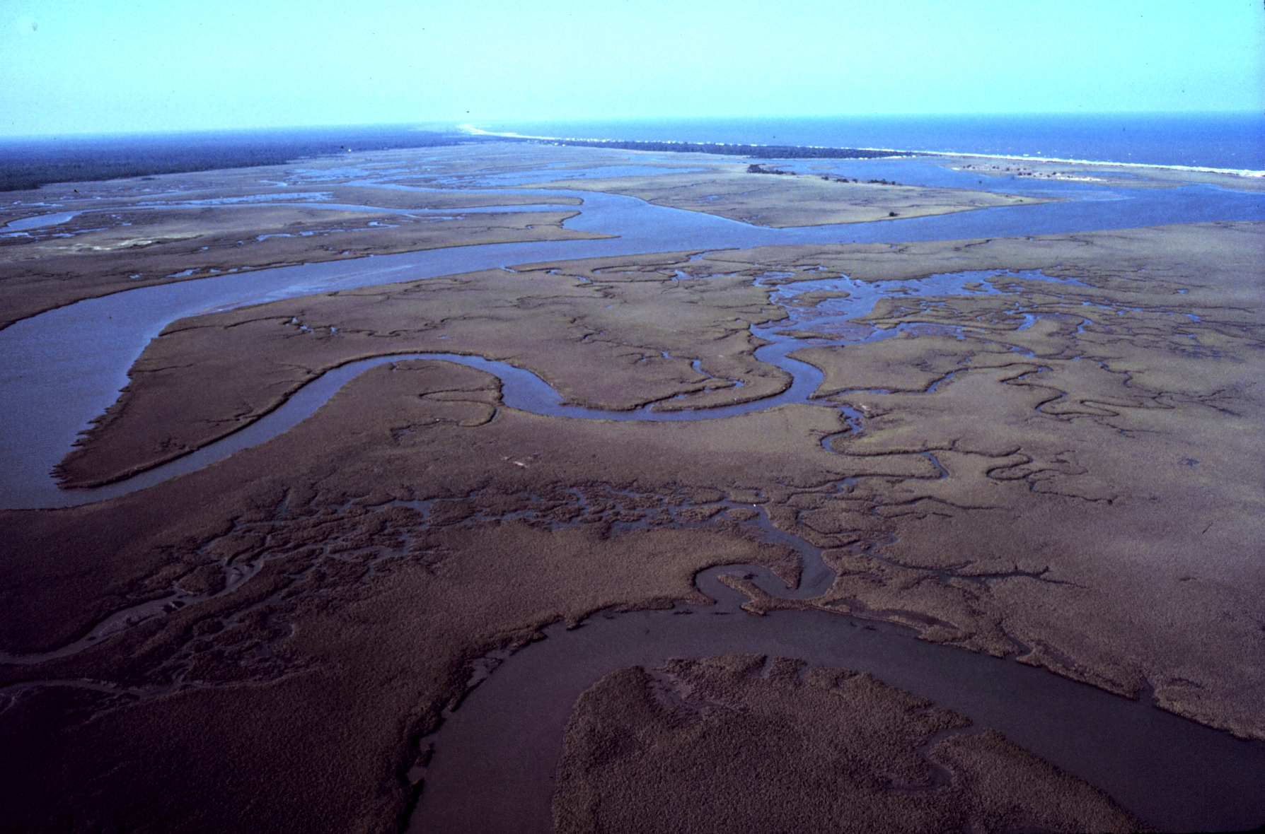 North Inlet - Winyah Bay National Estuarine Research Reserve. Aerial view of meandering tidal creeks and extensive pristine marshes in North Inlet Estuary. Vicinity of Georgetown, South Carolina.